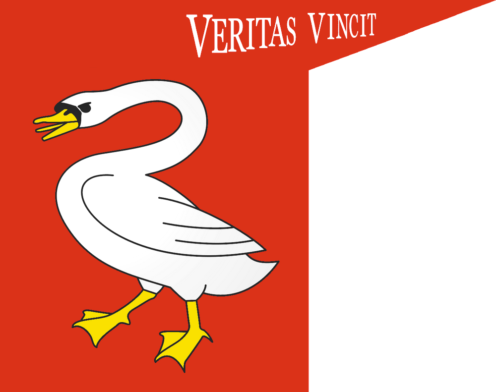 Banner supposedly used by Hussite forces of Taborites led by famous noble Bohuslav of Švamberg, whose heraldic emblem was a swan on a red field, later confused with a goose (Czech: husa) as a symbol of the Hussites by their enemies.